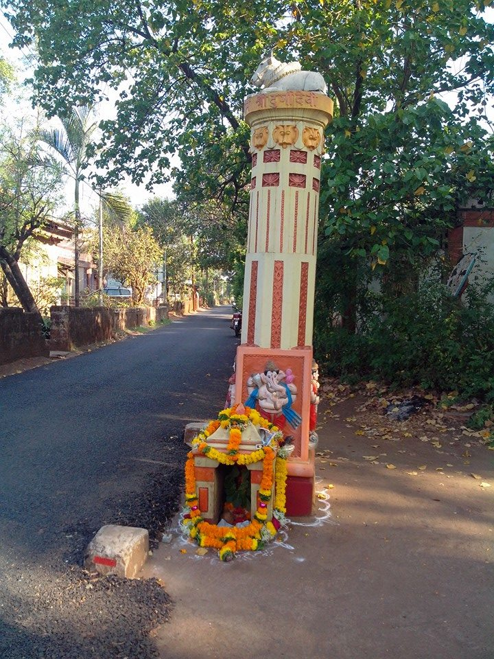 Devicha khamb